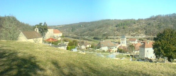 Picture take the 15/02/2008 in Peyrilles.